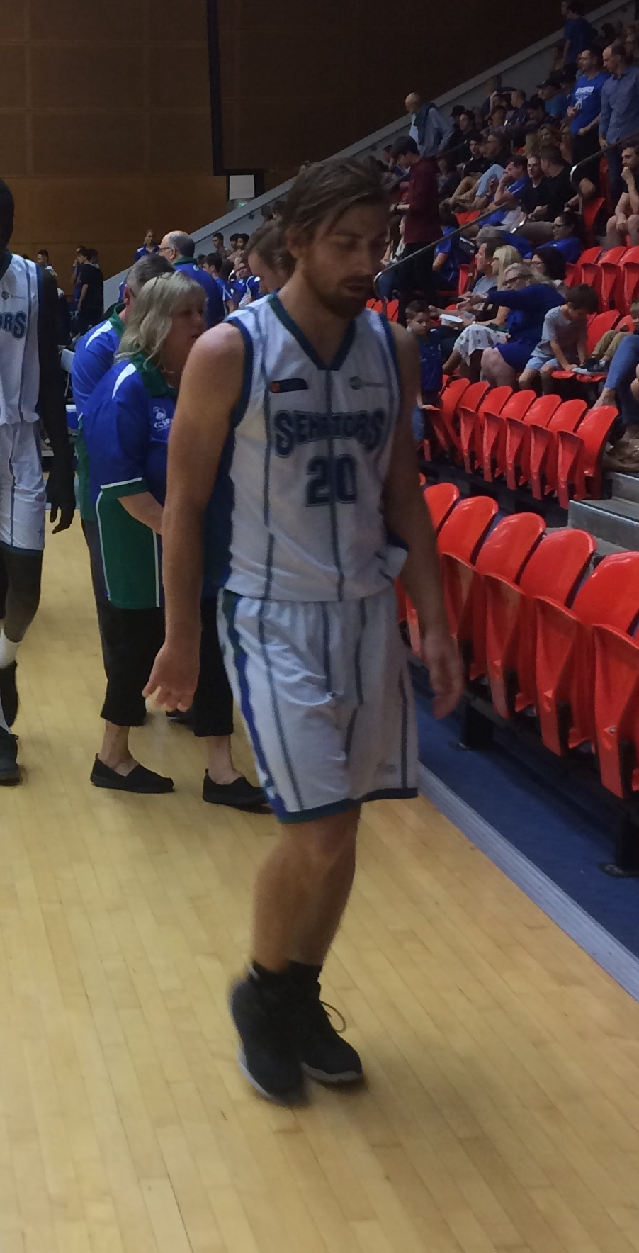 Corban Wroe with the Stirling Senators